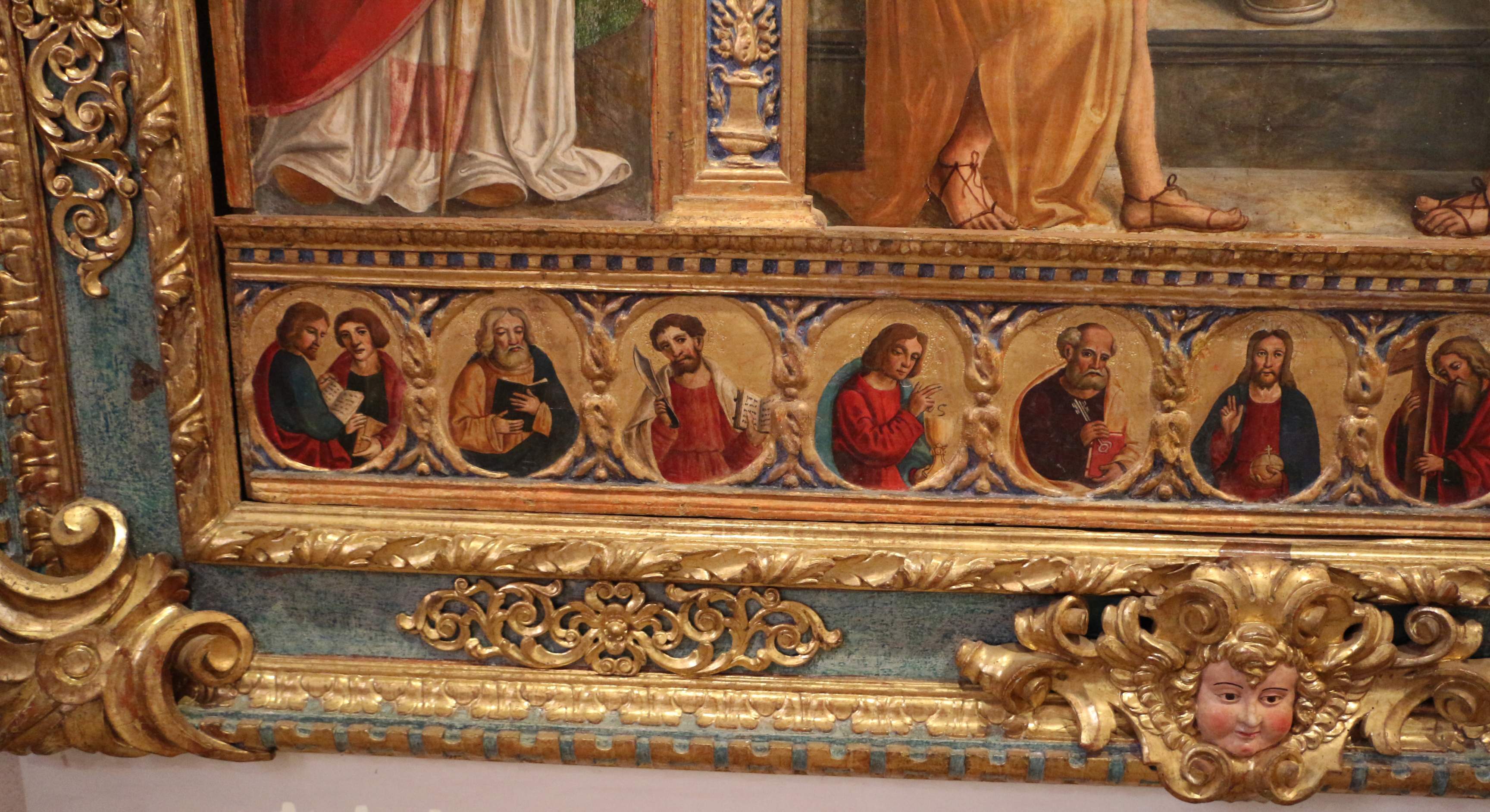 San Nicolò (Zanica) - Museum